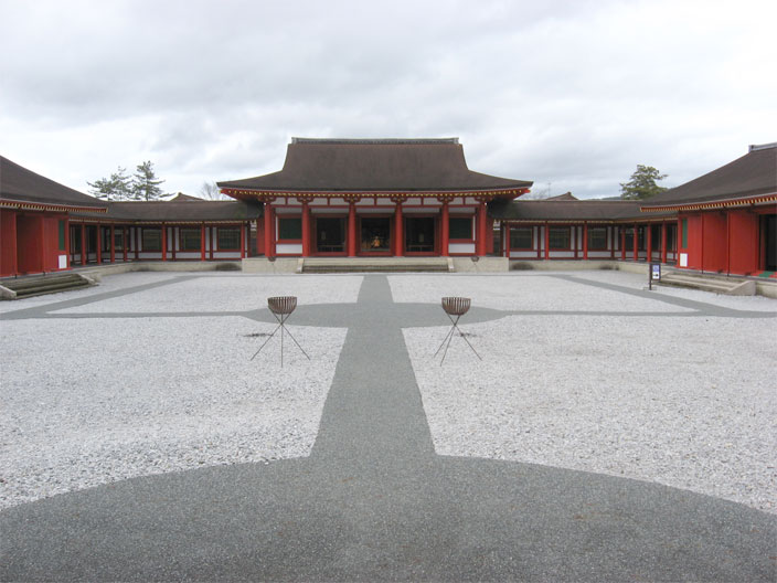 Esashi Fujiwara-no-Sato (Esashi-Fujiwara Heritage Park) in Ōshū, Iwate Prefecture.